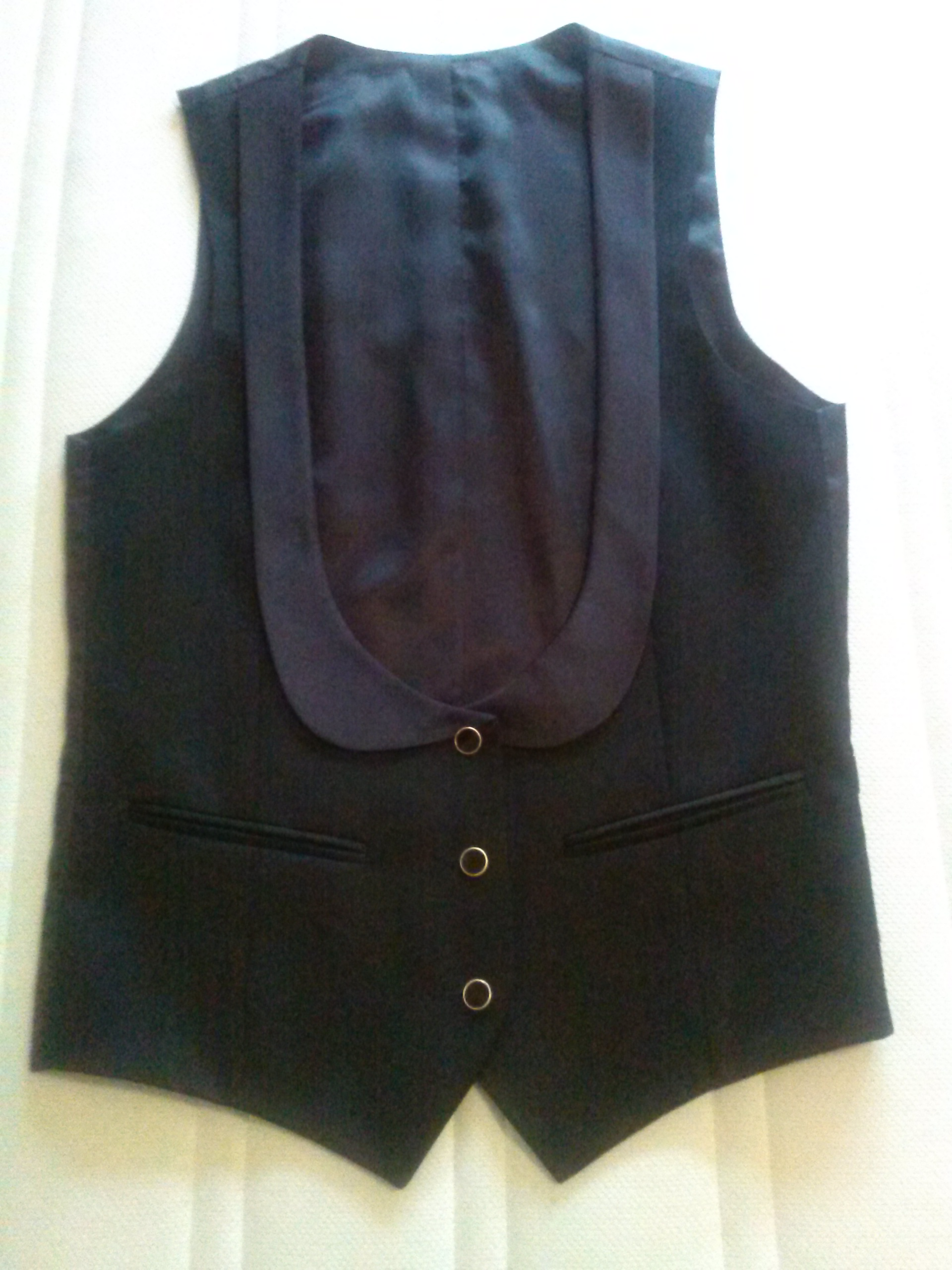 A single-breasted black tie waistcoat in barathea wool with a horseshoe-shaped shawl lapel in silk. It is closed with studs of black enamel in a gold setting.